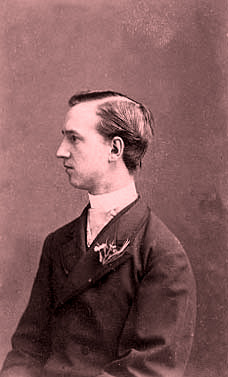 Georgios I, King of Greece (b.1845-d.1913)as young Prince of Denmark